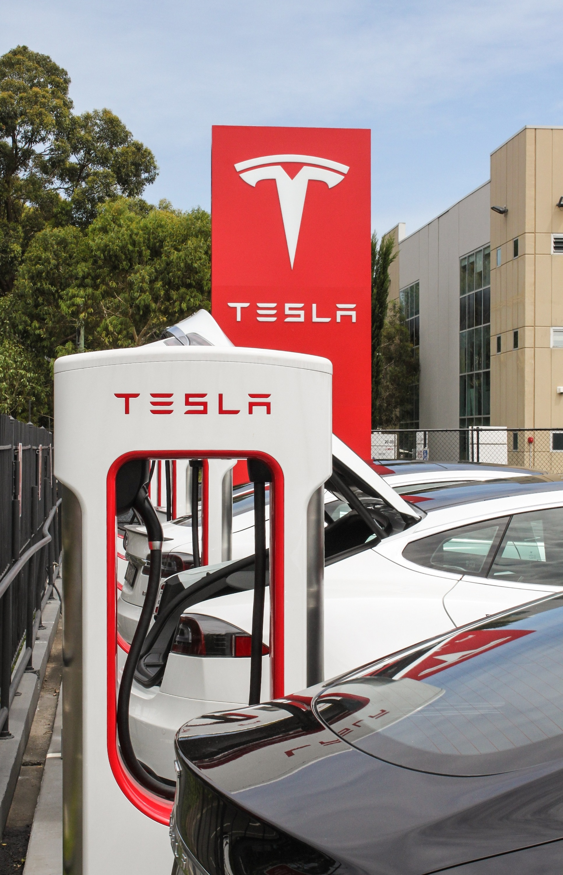 Tesla Model S at Dealership